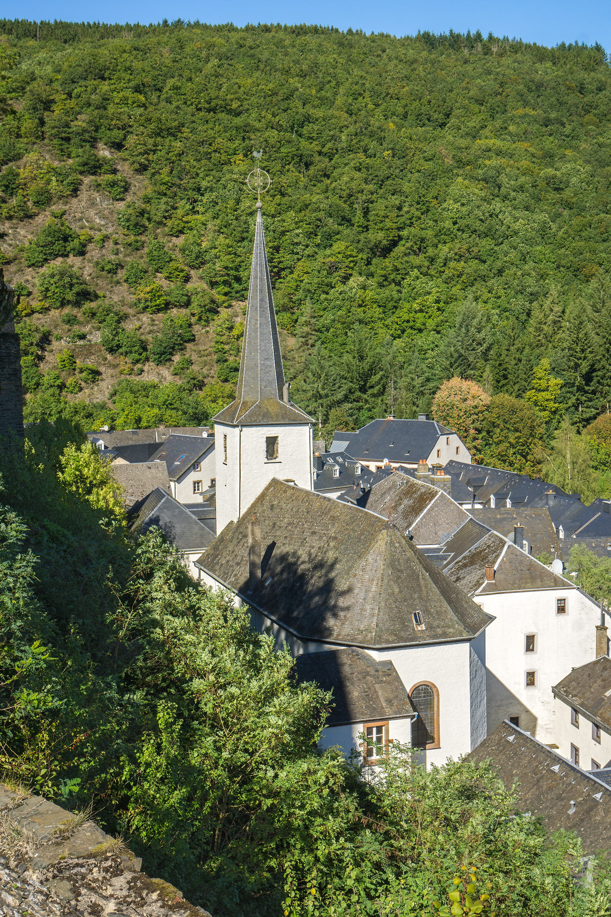 Church of Esch-Sauer